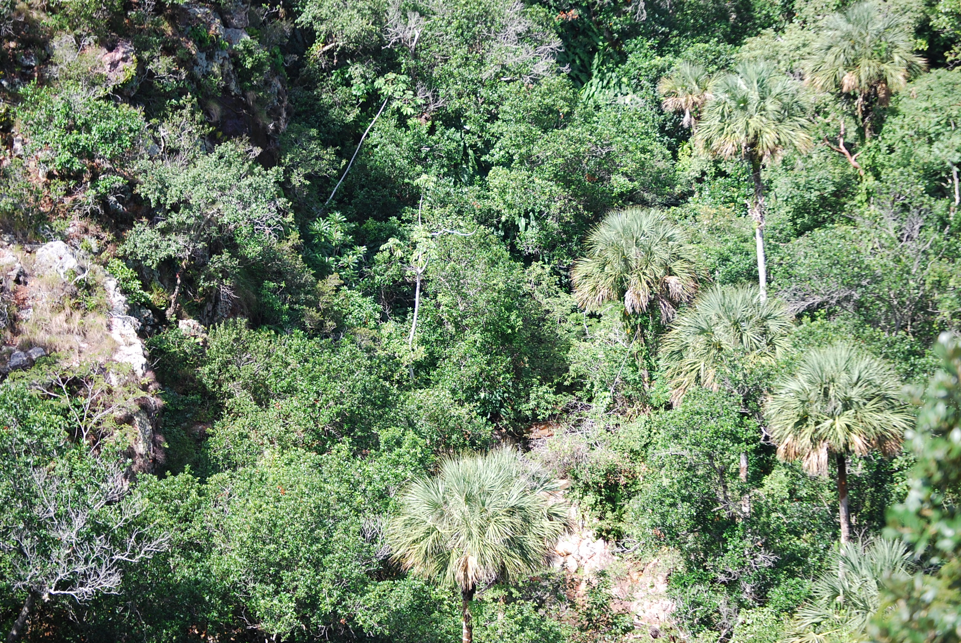 Palms on tropical oaks in Central Veracruz.